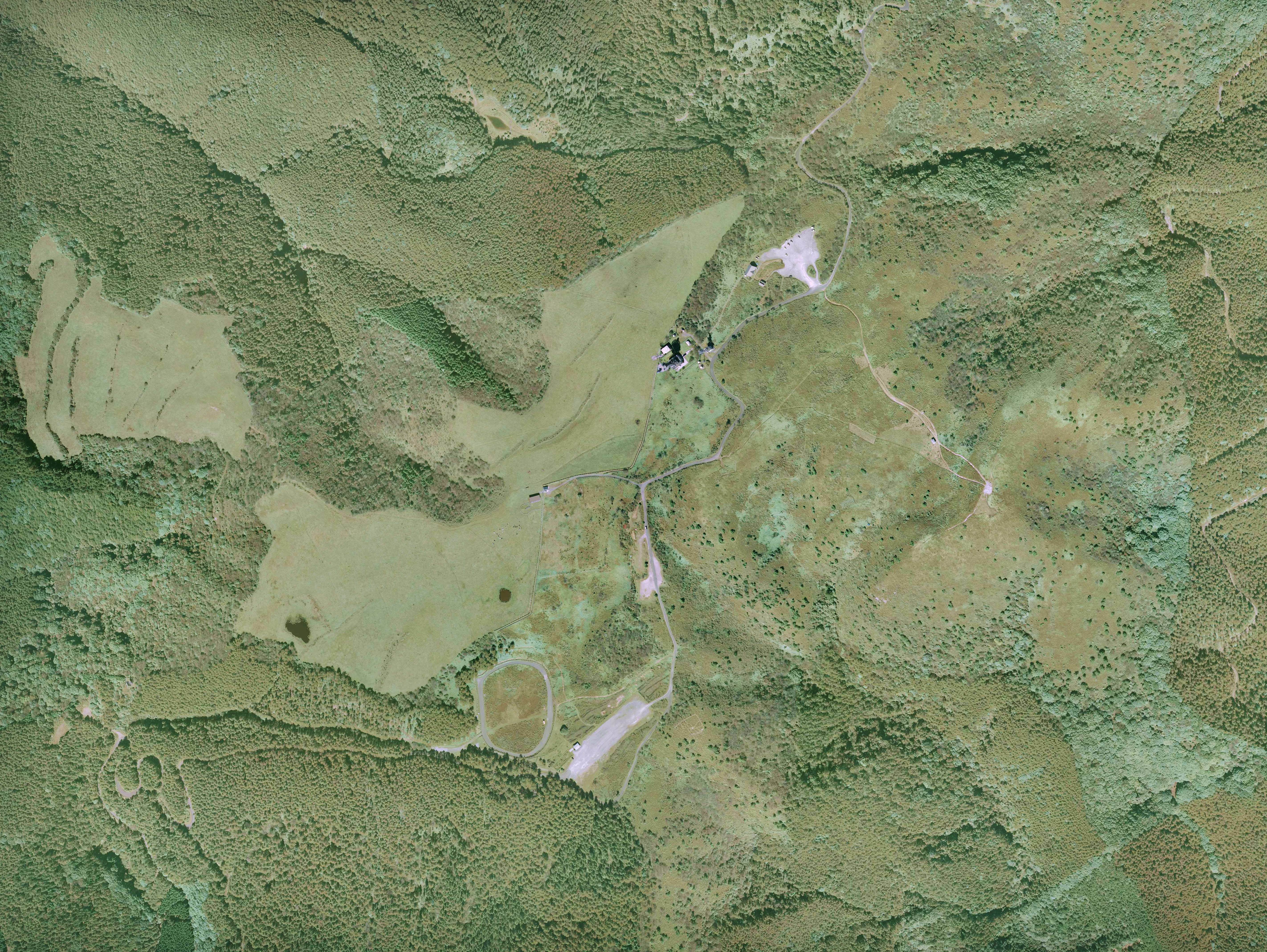 Mount Takabocchi.